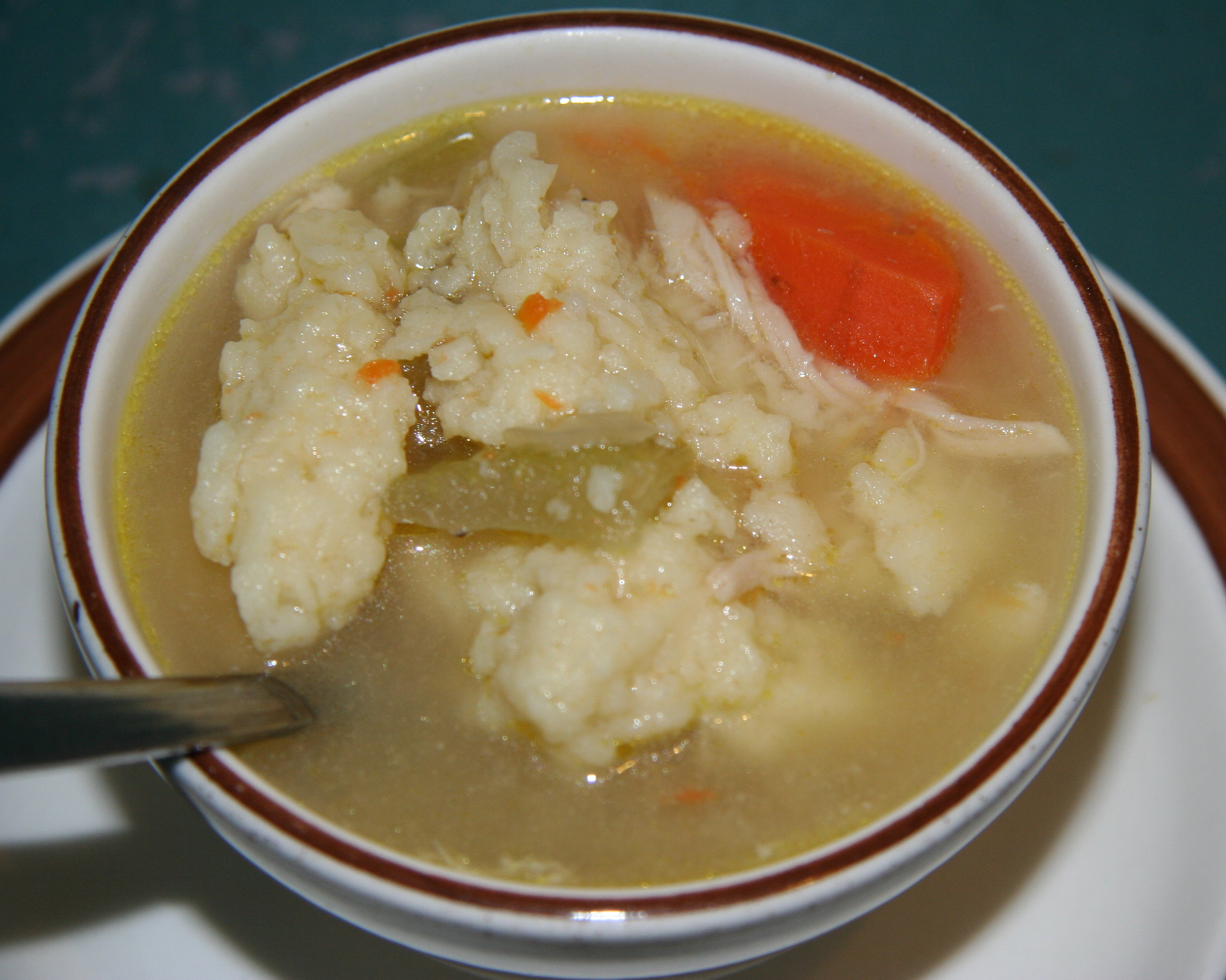 A bowl of chicken and dumplings with vegetables served at Nicoll's Cafe, 255 Main Street, Pine City, Minnesota